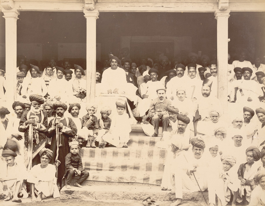 View showing a crowd with the Maharaja of Kolhapur, with attendants and officials watching a wrestling match